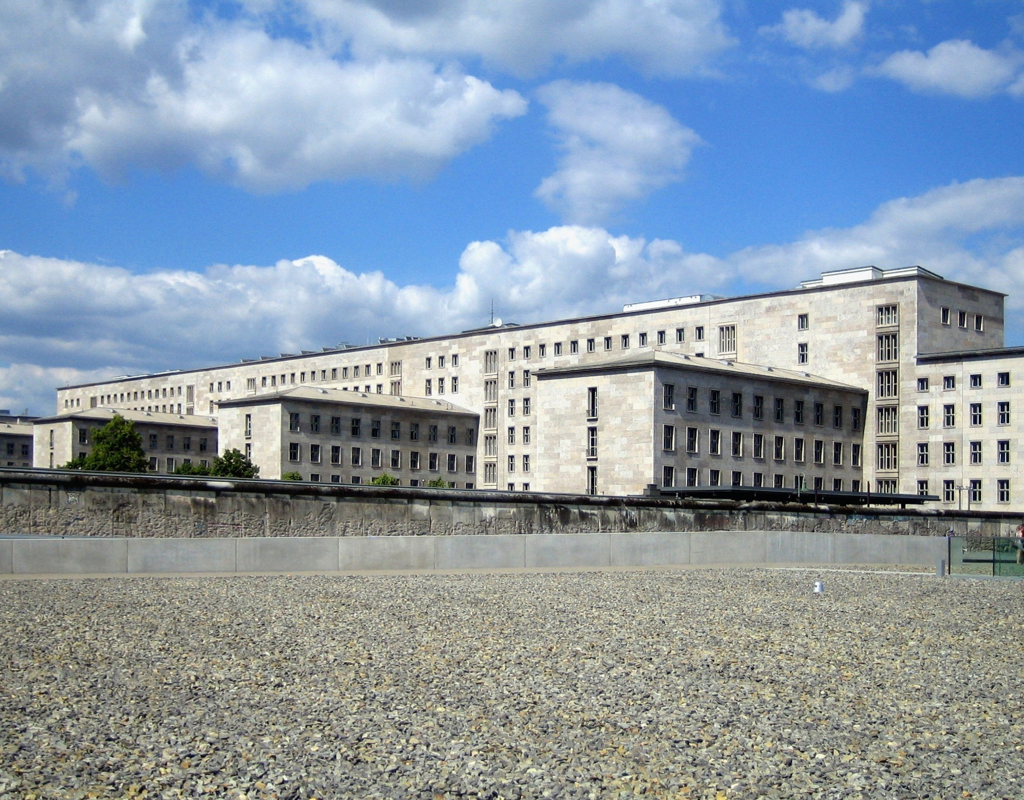 The Detlev-Rohwedder-Haus in Berlin-Mitte, seat of the German Ministry of Finance. Rear view.